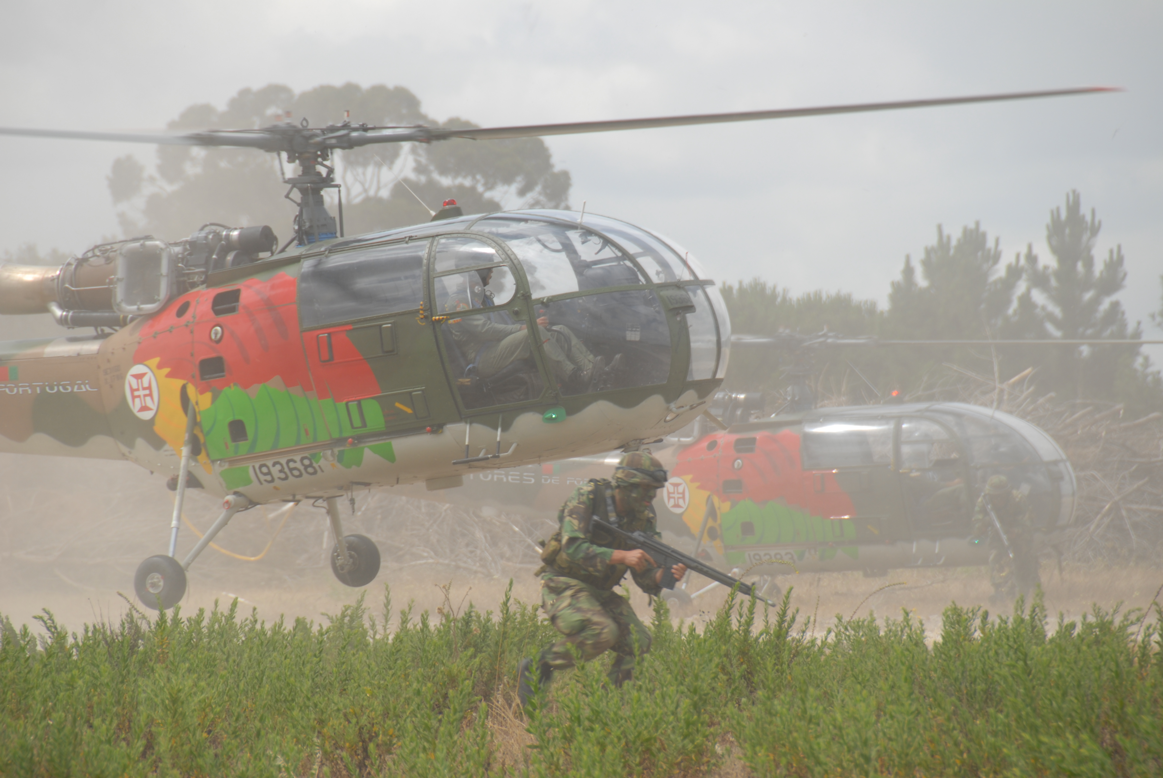 An air assault trainning, by Portuguese Army Paratroopers and Portuguese Air Force Alouette III helicopters.